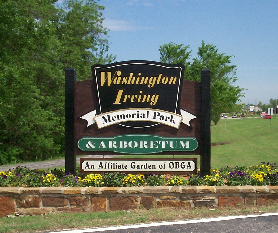 Welcome sign at the Washington Irving Memorial Park and Arboretum in Bixby, Oklahoma. The park is named after American author Washington Irving, who spent time in the area in 1832.